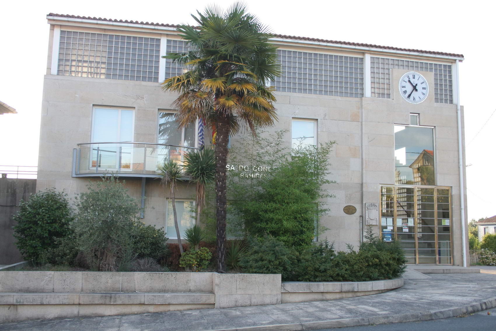 Town Hall in Ramirás (Spain)